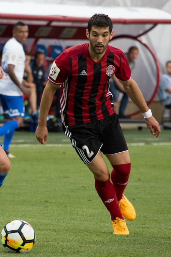 Aleksandar Miljković with FC Amkar Perm in a game against FC Dynamo Moscow.